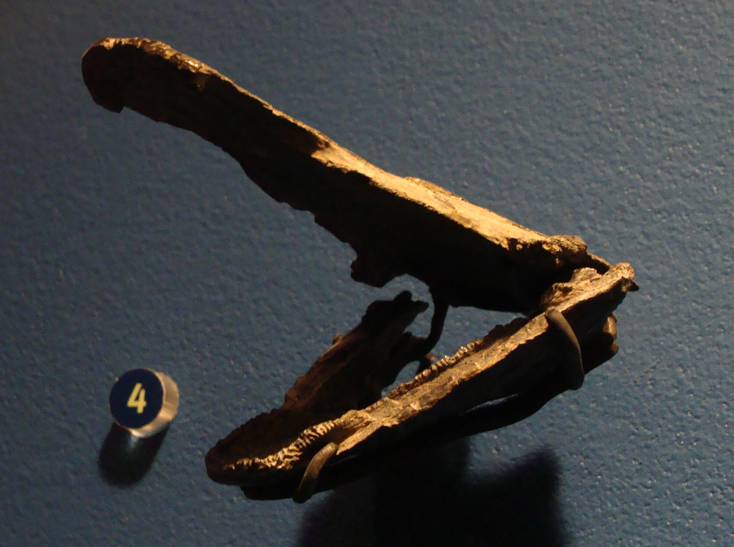 Uranolophus wyomingensis in the Field Museum, Chicago.